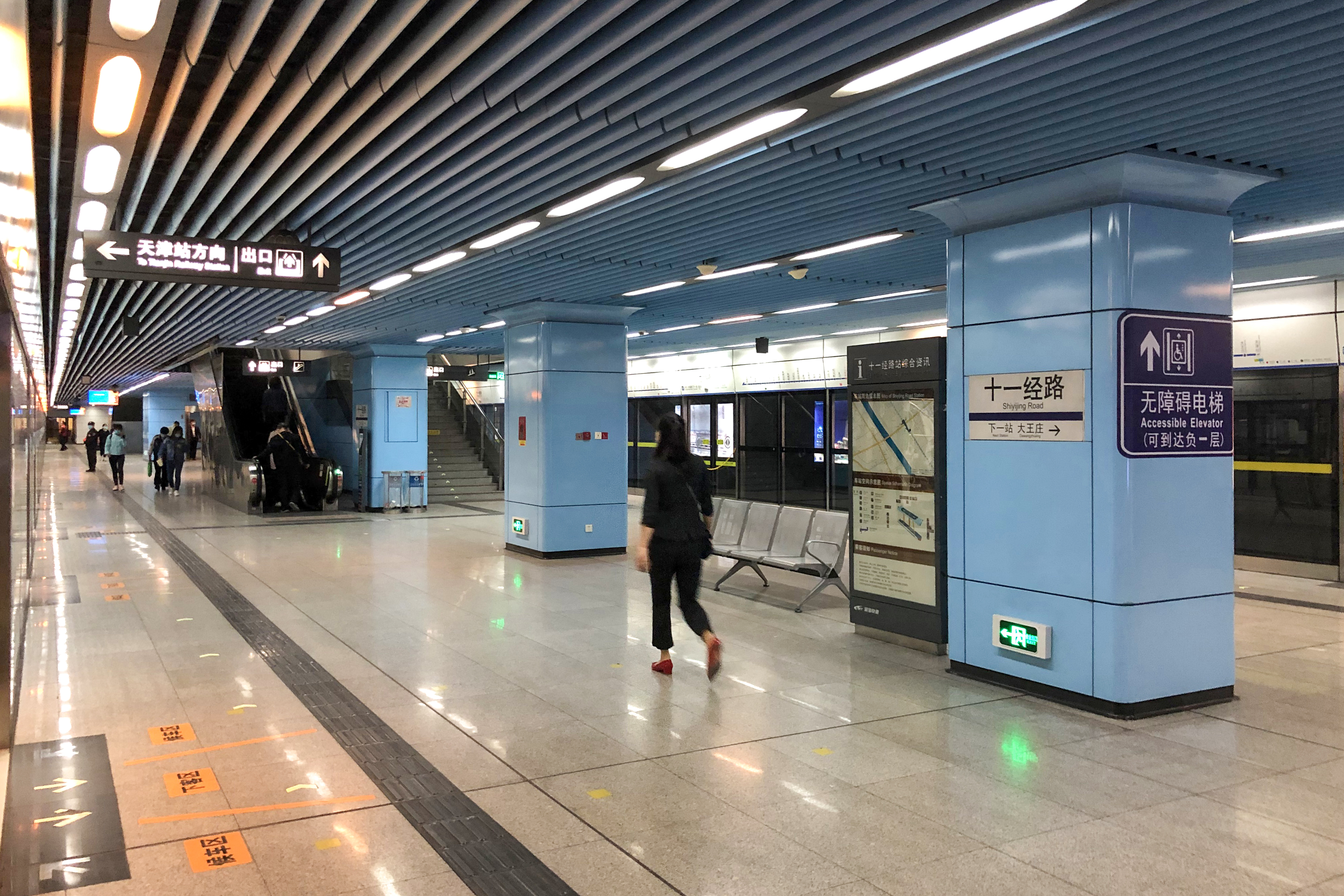 BMT has a different rule...